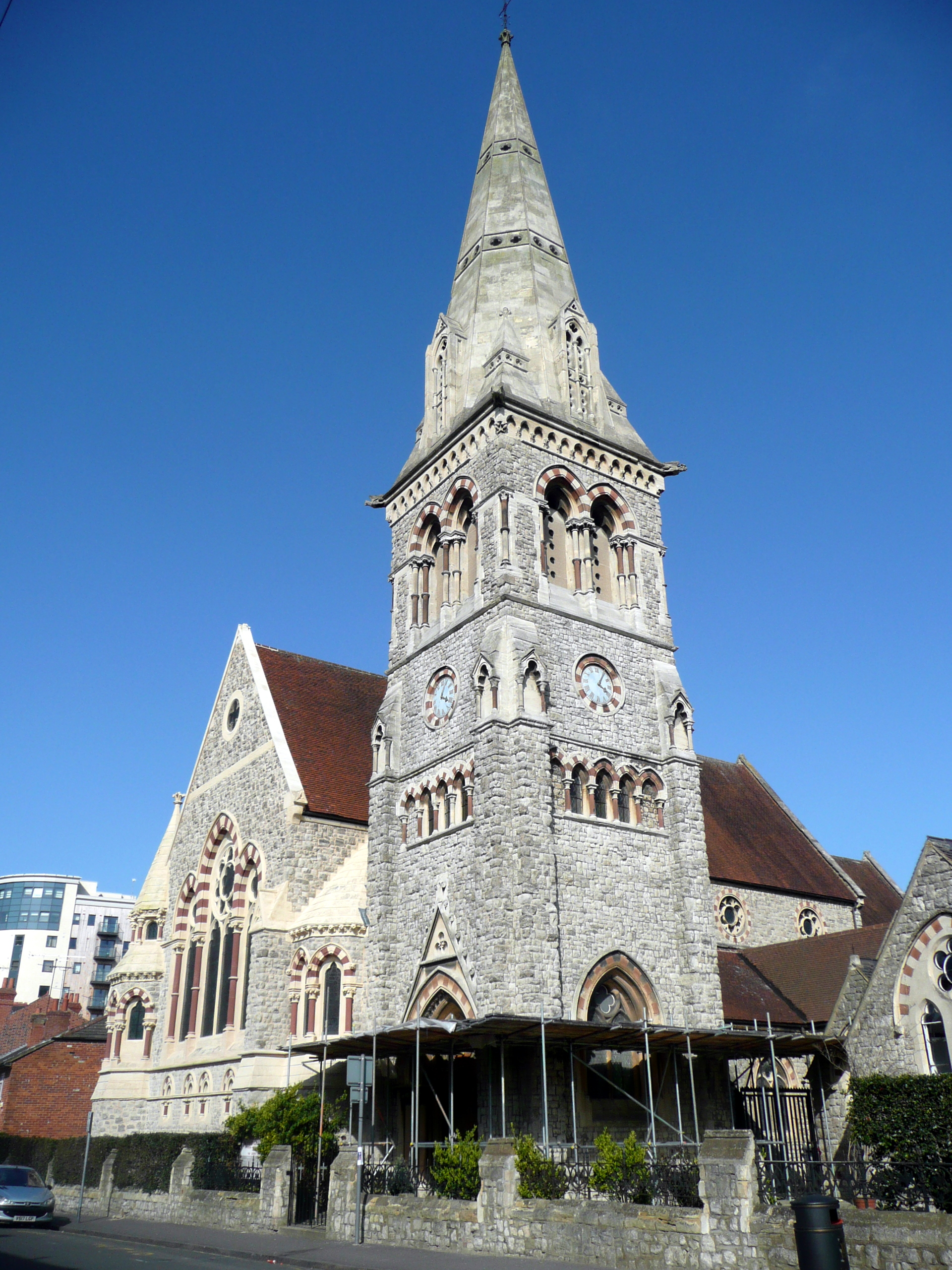 Polish Roman Catholic Church of the Sacred Heart, Watlington Street, Reading, Berkshire, seen from the southwest. Completed 1873 as a Church of England parish church, replacing an earlier church of 1837.